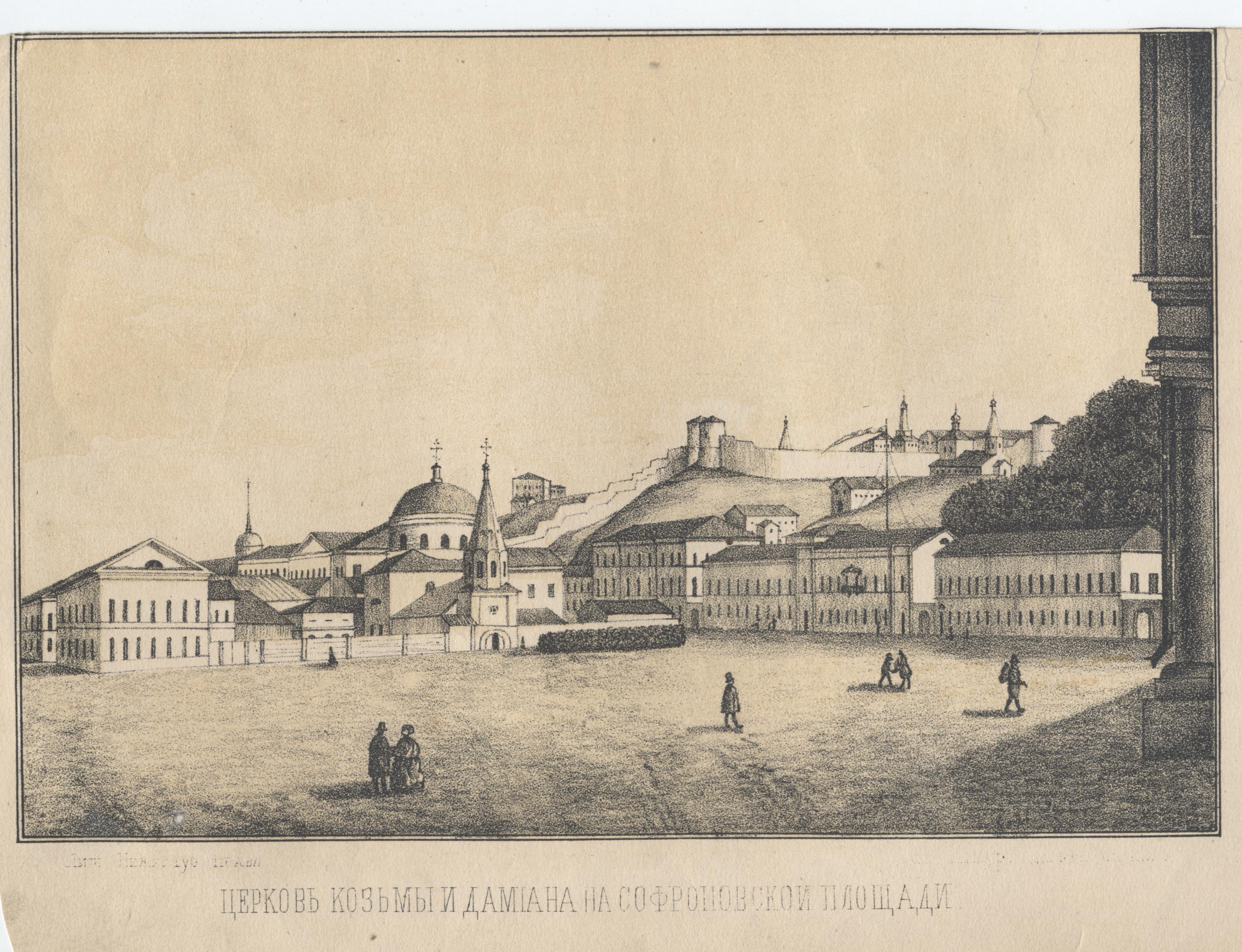 Nizhny Novgorod. Rozhdestvenskaja street. Church of Saints Cosmas and Damian